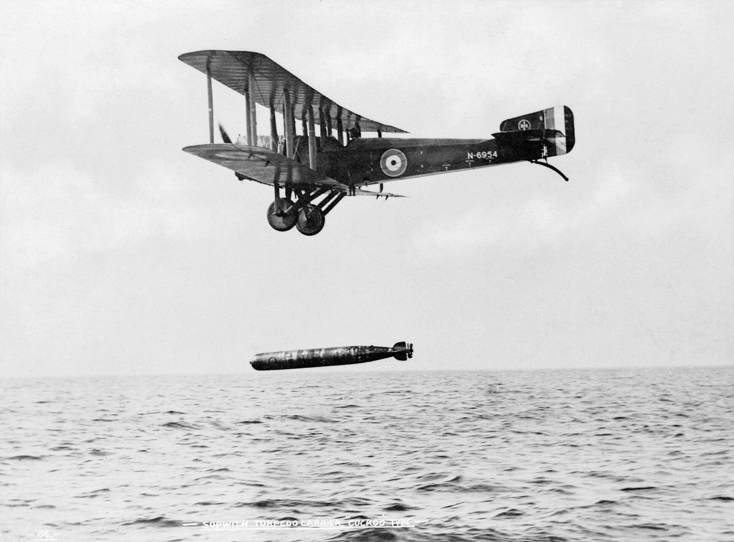 IWM caption : Sopwith Cuckoo dropping a torpedo.